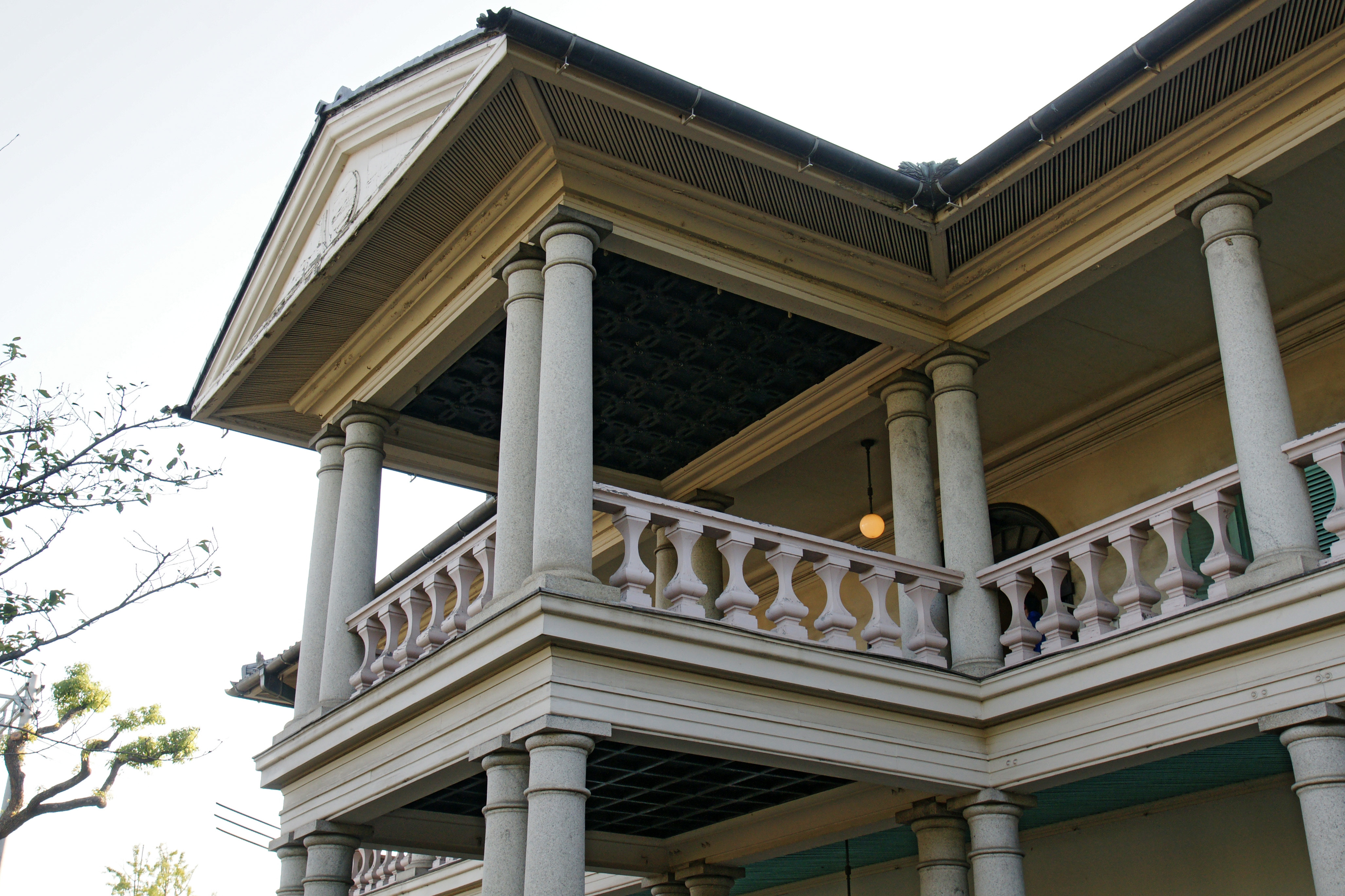 Senpukan in Osaka, Osaka prefecture, Japan